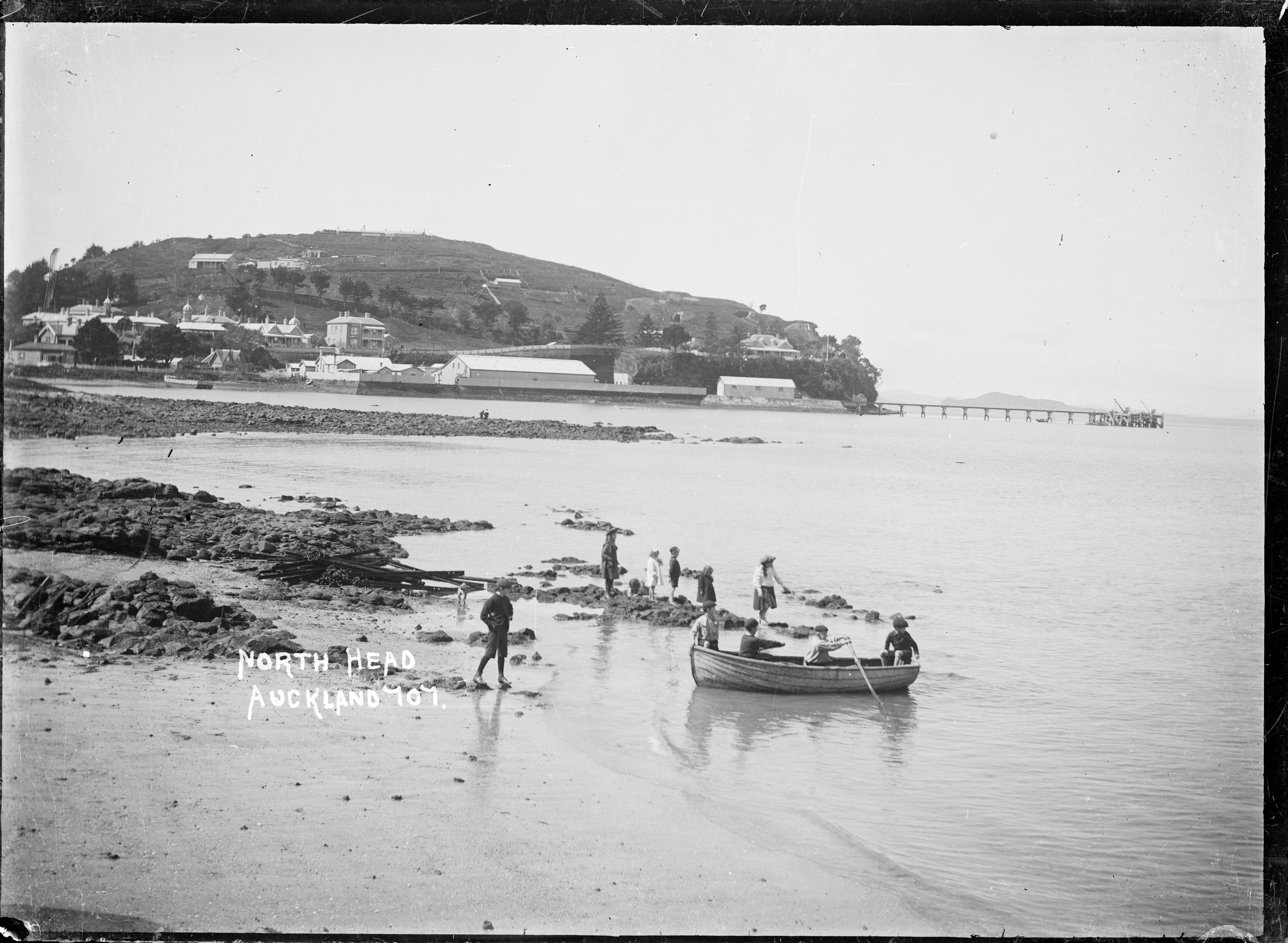 View taken from vicinity of Duders Beach, Devonport looking across Torpedo Bay to North Head. In the foreground are four boys in a dinghy and other children are playing on the rocks on the foreshore closeby. The large buildings were known as the Torpedo Yard (the home of the Torpedo Corps). Torpedo Wharf can be seen in the distance. Photograph taken by William A Price. Inscriptions: Inscribed - Photographer's title on negative -bottom left: North Head. Auckland. 707. William Archer Price lived and practised in Queen Street, Northcote, 1909-1910. Source: New Zealand Post Office directories Quantity: 1 b&w original negative(s). Physical Description: Dry plate glass negative 4.5 x 6.5 inches View looking across Torpedo Bay to North Head, Devonport. Price, William Archer, 1866-1948 :Collection of post card negatives. Ref: 1/2-001635-G. Alexander Turnbull Library, Wellington, New Zealand.